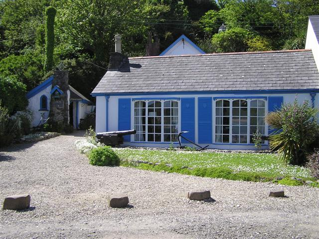 Church and buildings, Portbraddan. Looking west; see close-up of cannon here 1339196